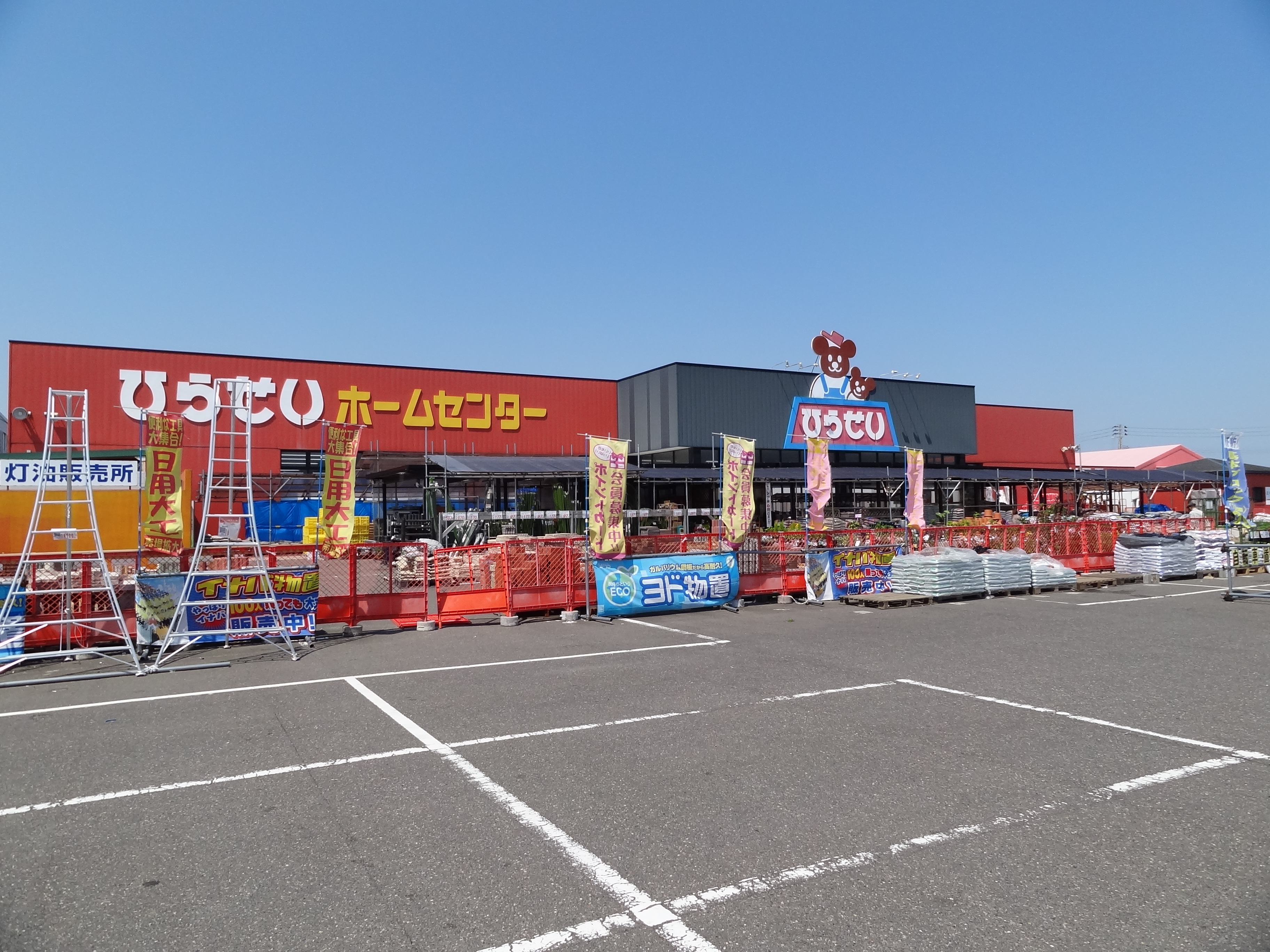 Hirasei Home Center Yokogoshi